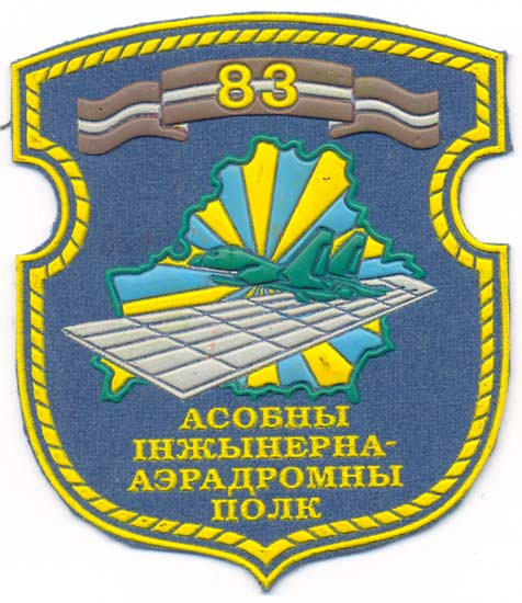 Insignia of the 83rd Separate Engineering Airfield Regiment